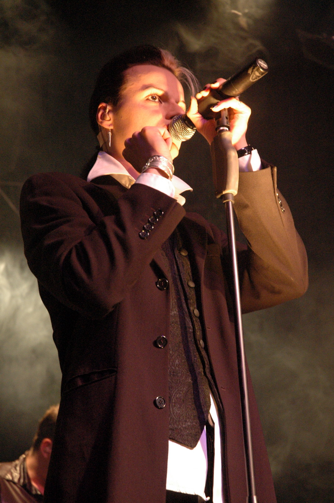 Tilo Wolff from Lacrimosa